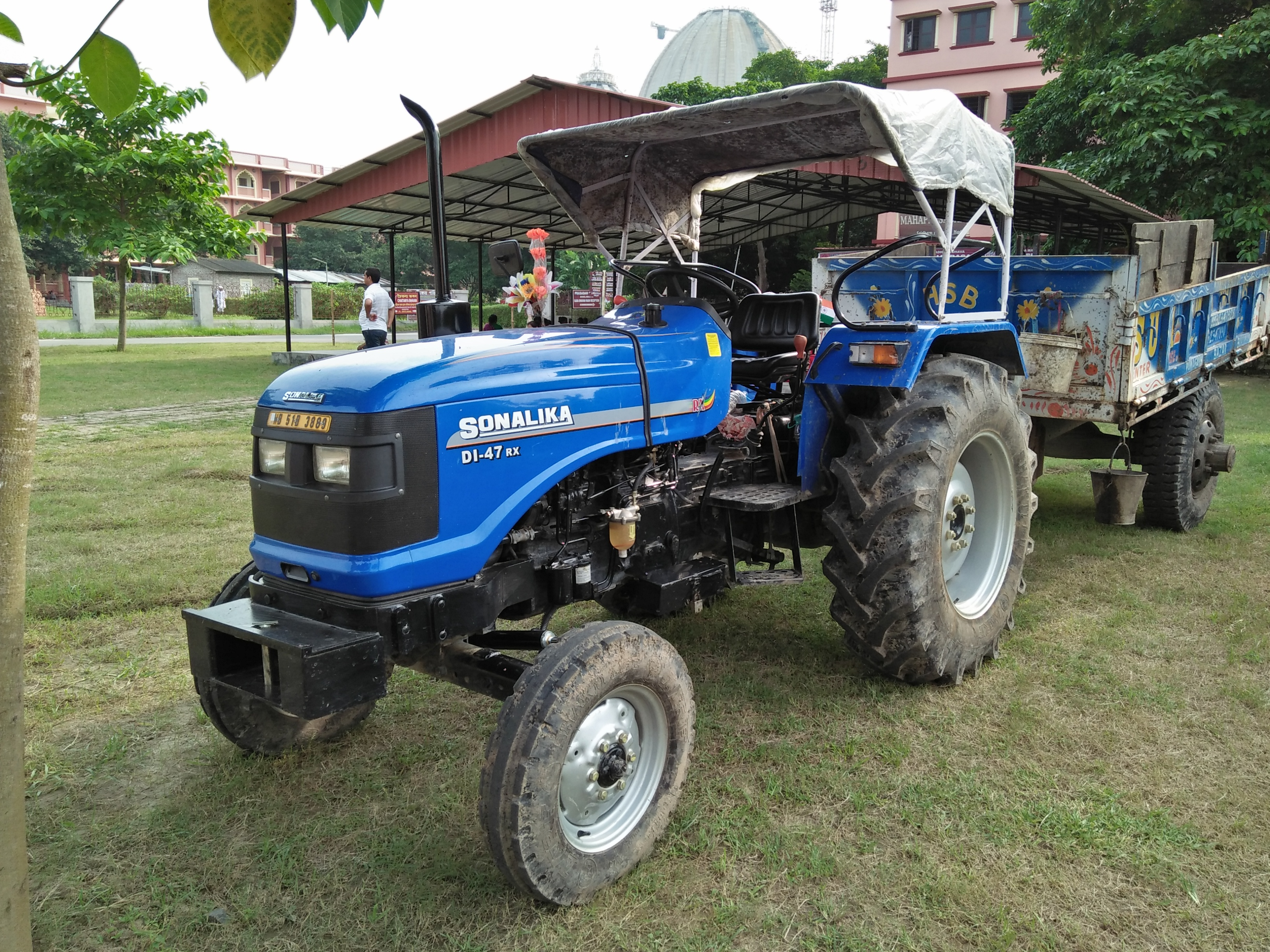 This photograph was taken at the ISKCON campus, Mayapur.